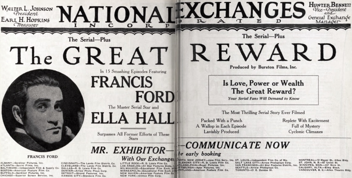 Advertisement for the American film serial The Great Reward (1921) with Francis Ford, on pages 32 and 33 of the October 15, 1921 Exhibitors Herald.